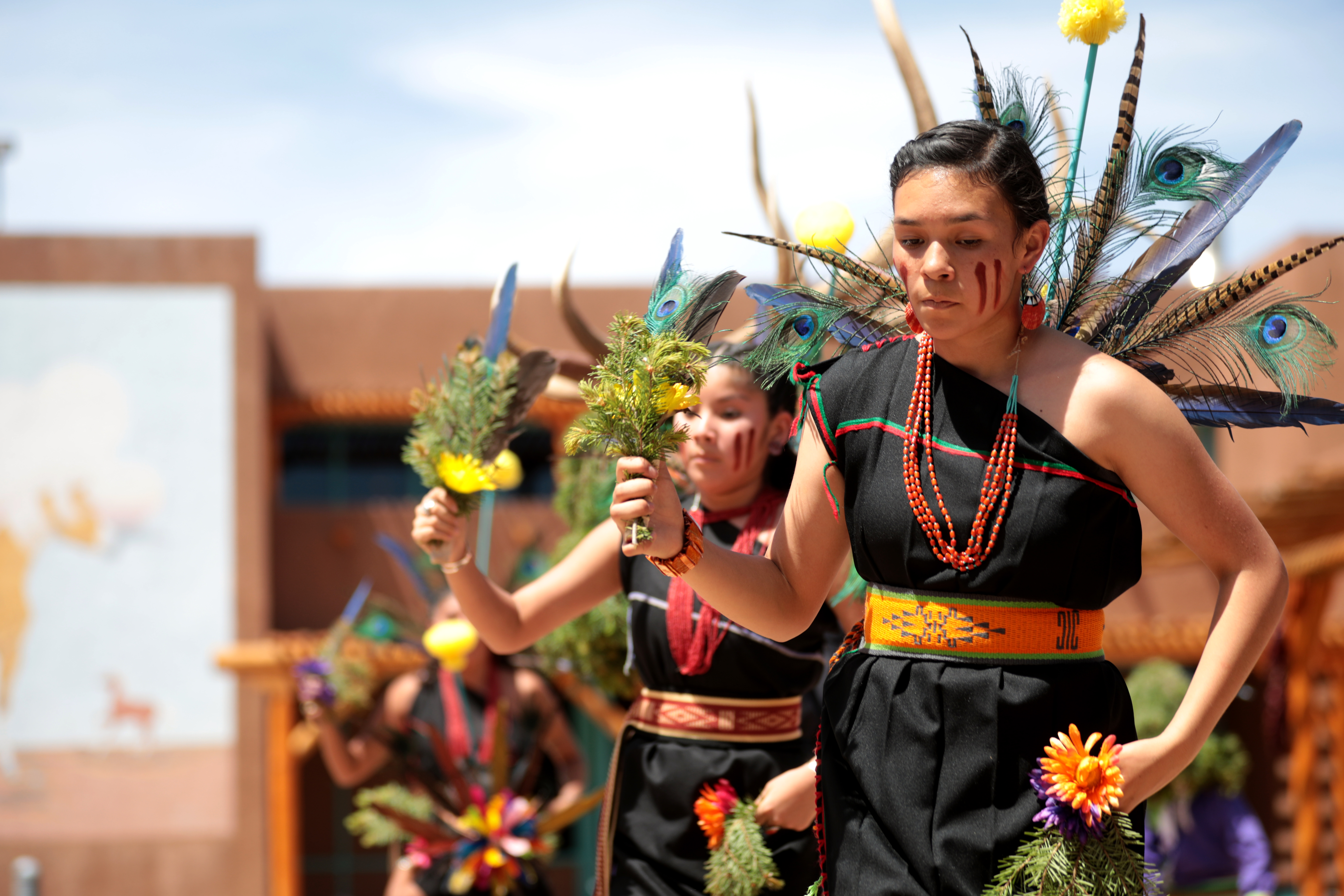 Performers at the Indian Pueblo Cultural Center in Albuquerque, New Mexico.